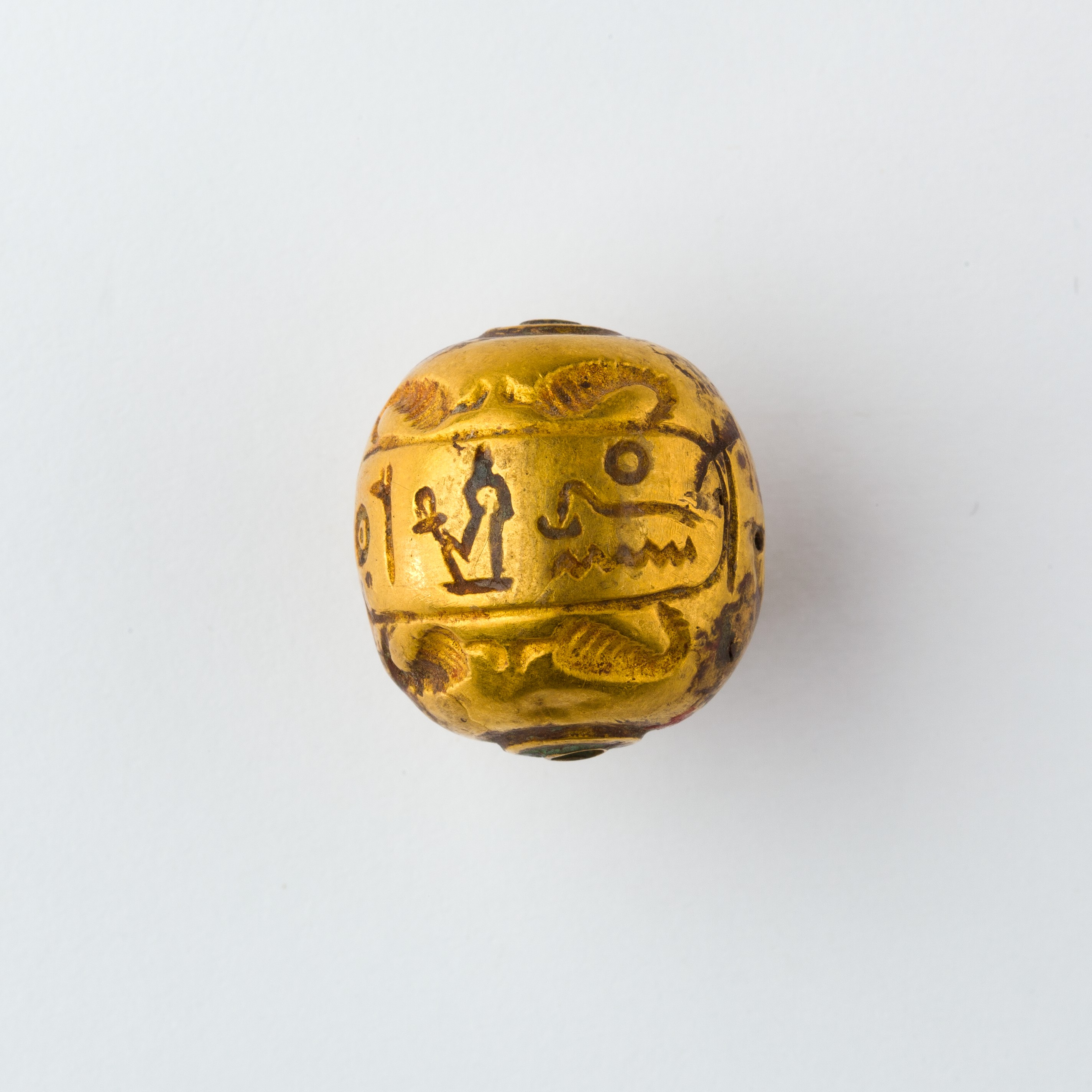 Bead, Ramesses II, Isetnefret